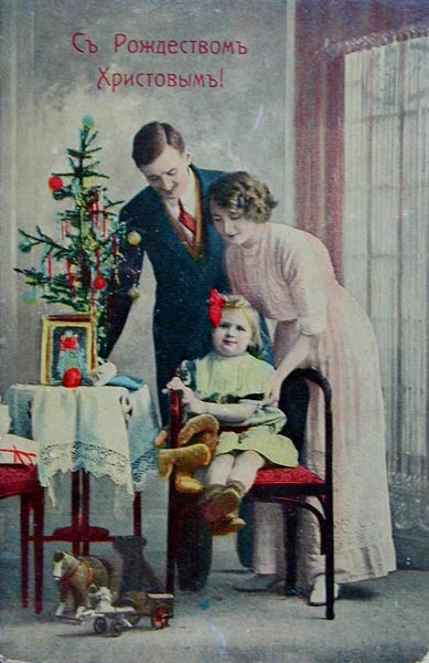 Happy Christmas! Old pre-1917 Russian Xmas Postcard. Flickr data on 2011-08-13 Tags: Postcard, Xmas, Christmas, Public Domain License: CC BY-SA 2.0 User: paukrus Ruslan